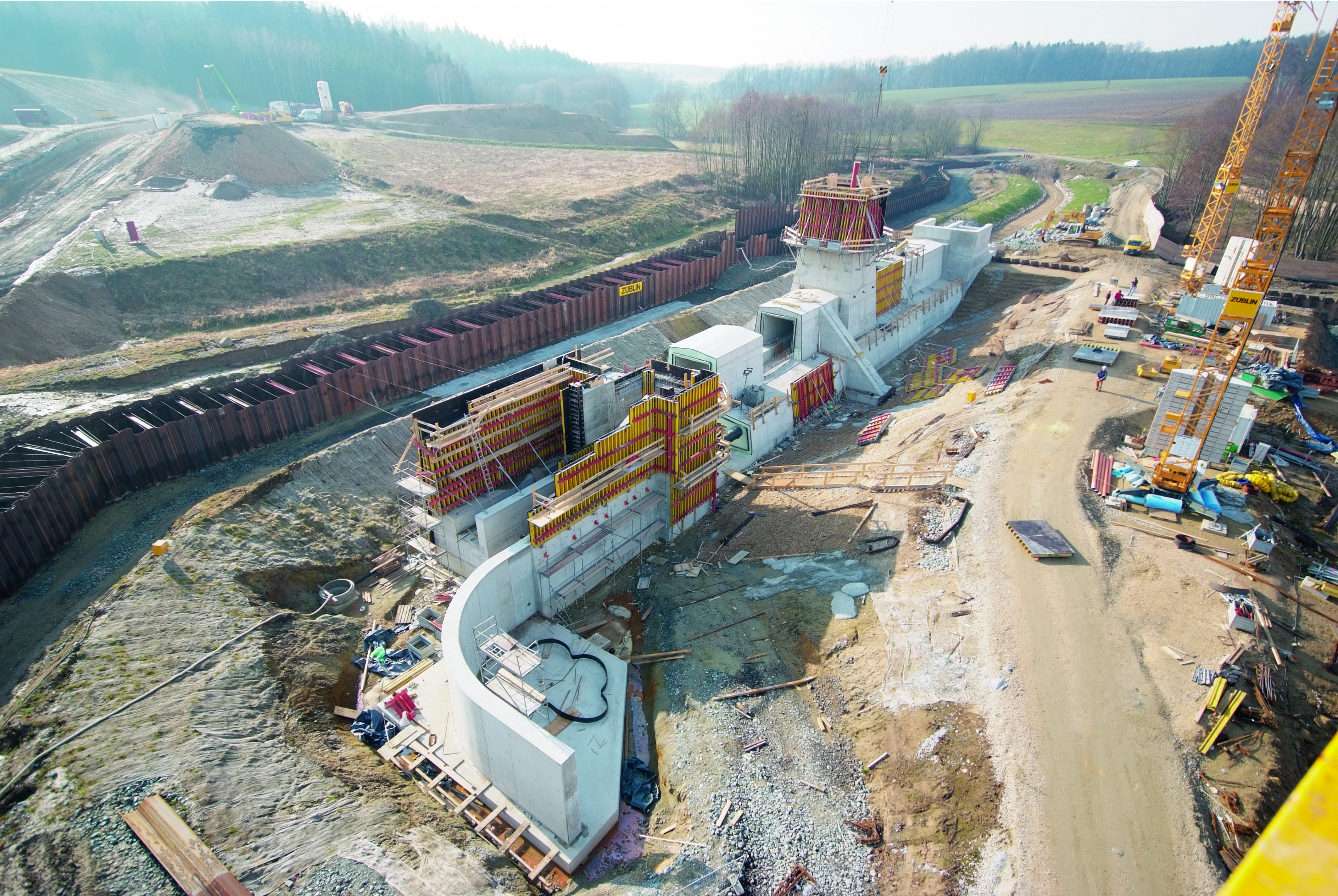 Dam Rennersdorf, construction site, Germany